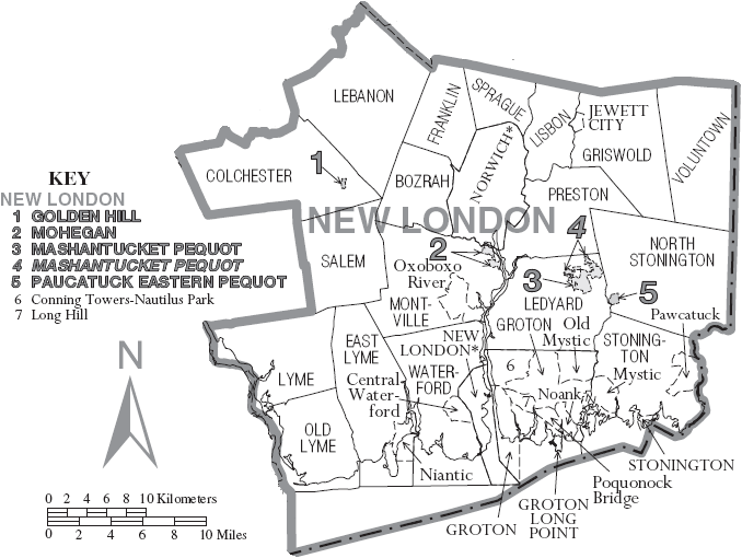 Map of New London County, Connecticut, United States with township and municipal boundaries